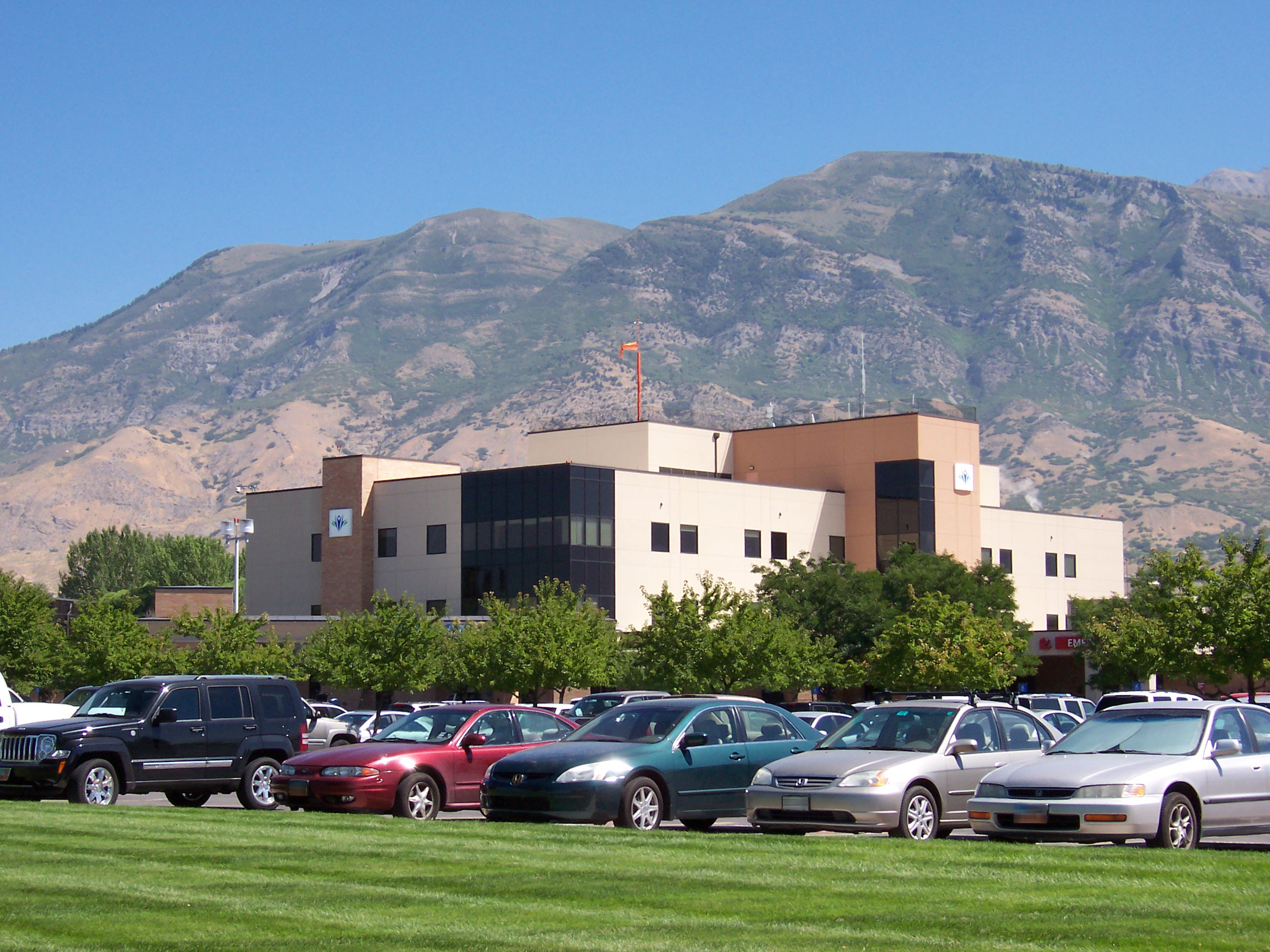 Photograph of American Fork Hospital.